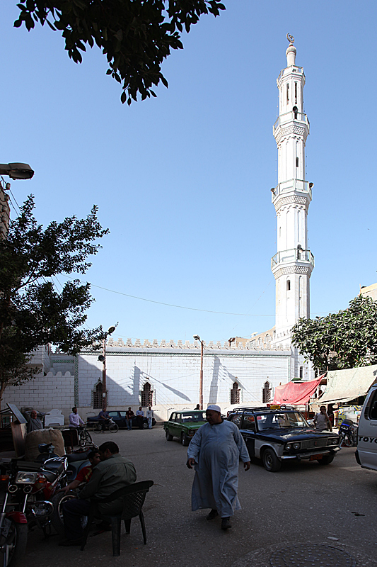 South side of the el-Farshuti Mosque, Sohag, Egypt